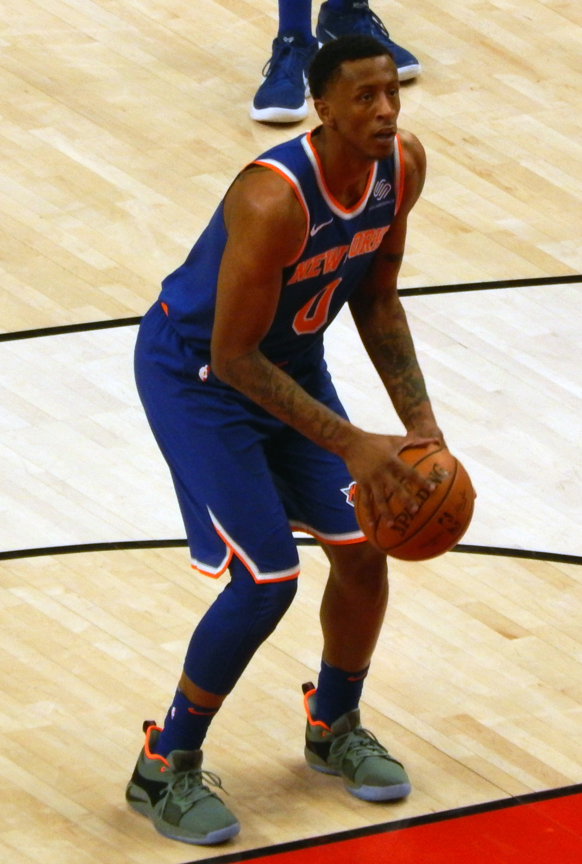 Troy Williams #0 of the New York Knicks against the Portland Trail Blazers on March 6, 2018 at Moda Center in Portland, Oregon.